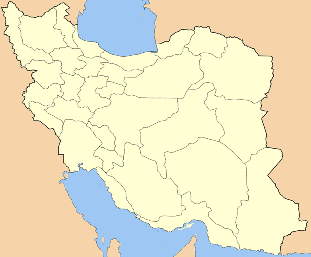 Map of Iran after correcting the South Khorasan Province Borders in Iran locator.png. (Ferdows County moved from Razavi Khorasan province to South Khorasan Province in March 2007)